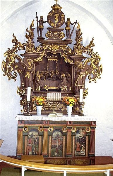 Bregninge Kirke (church) in Kalundborg Kommune. Altar by Lorentz Jørgensen (born before 1644, dead before 1681)